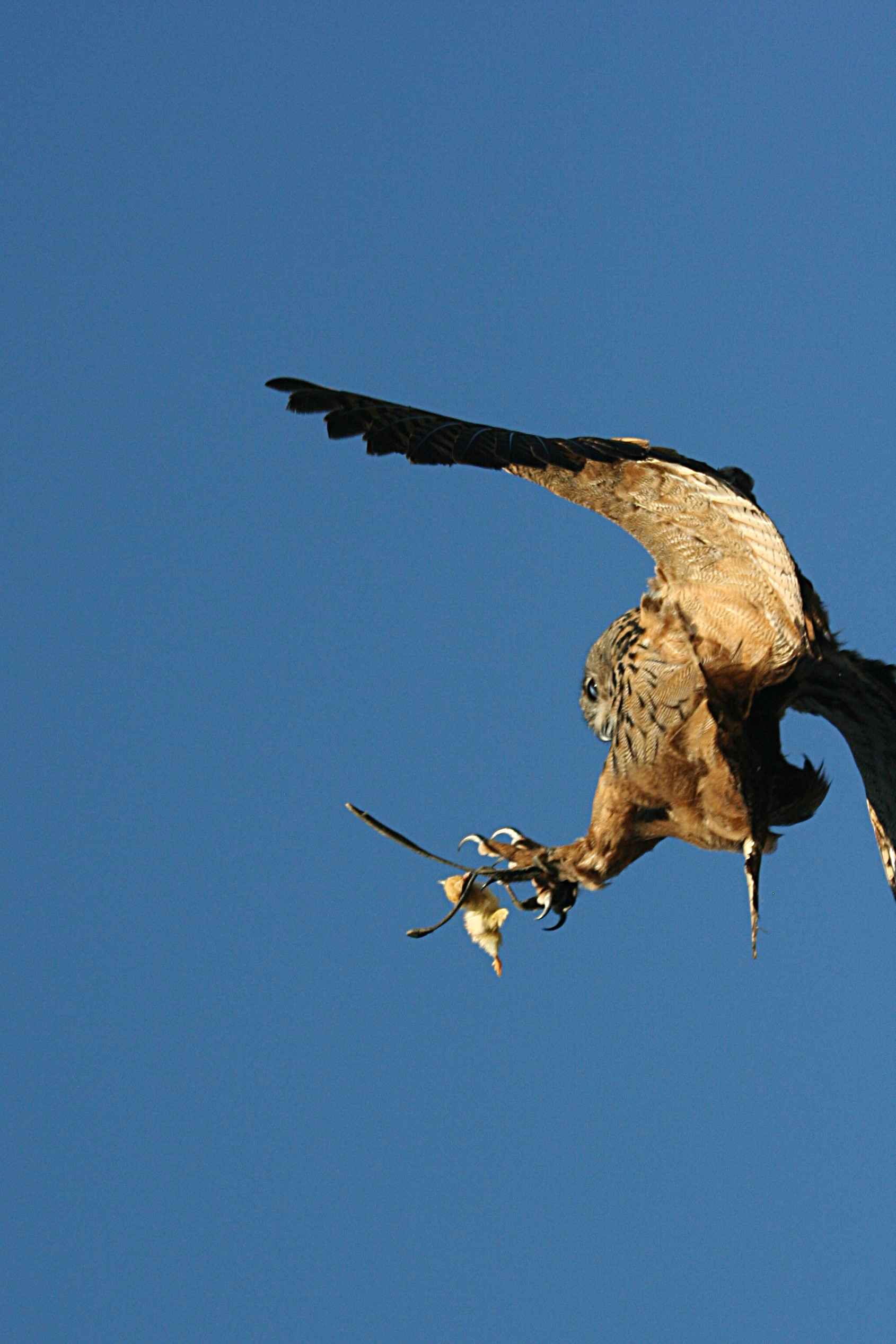 Eurasian Eagle-Owl (Bubo bubo) catching prey in flight